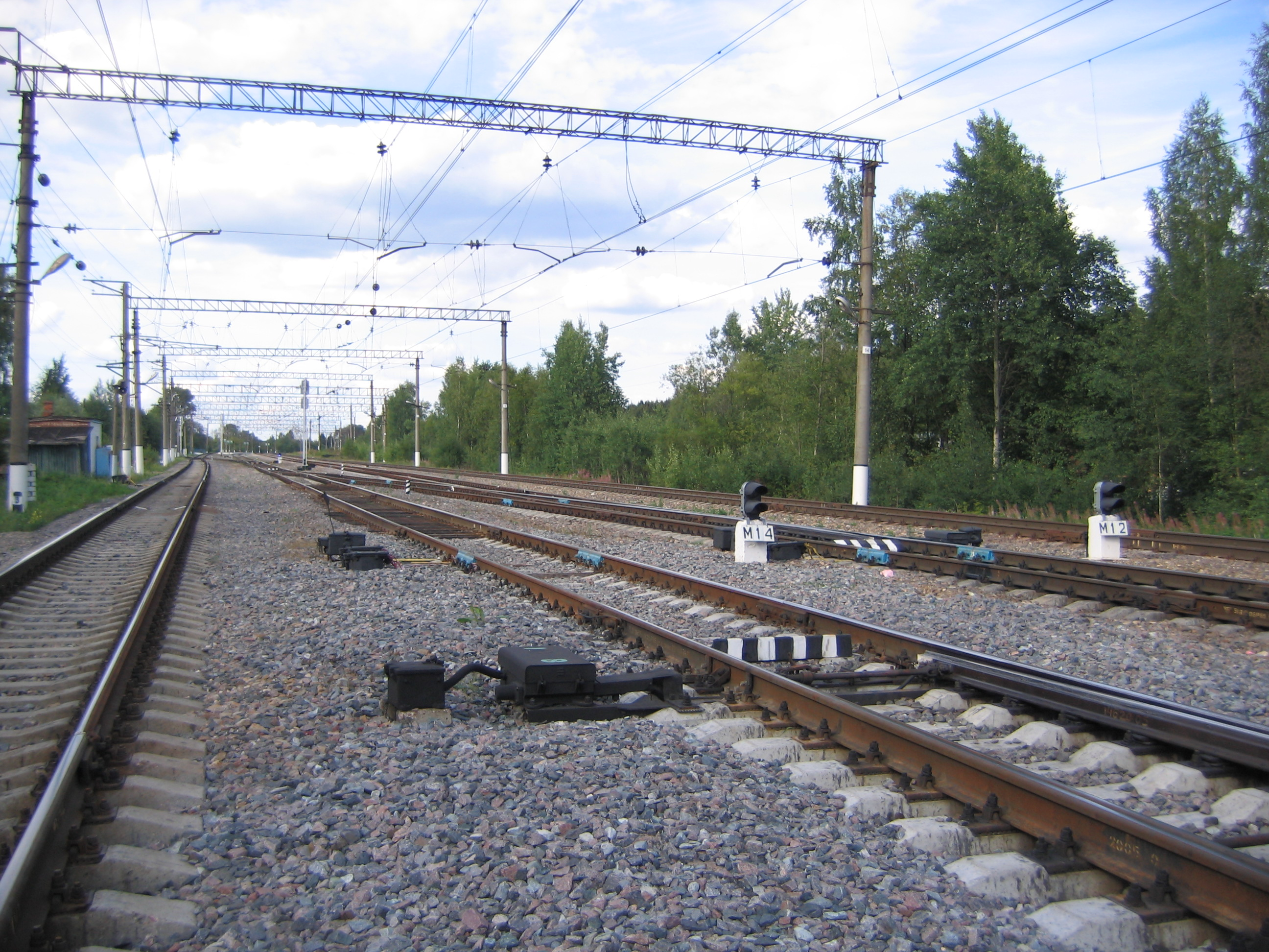 Manikhino-2 railway station in Moscow Region, Russia